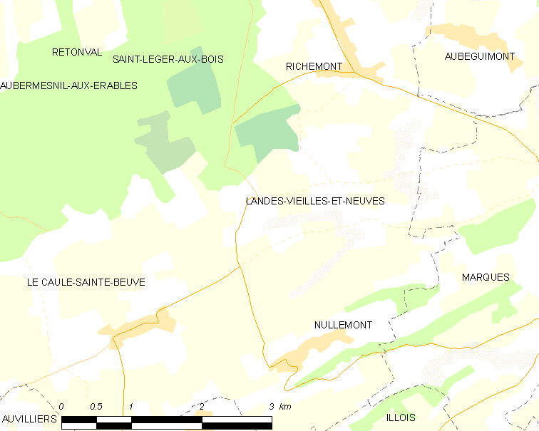 Map of French municipality Landes-Vieilles-et-Neuves